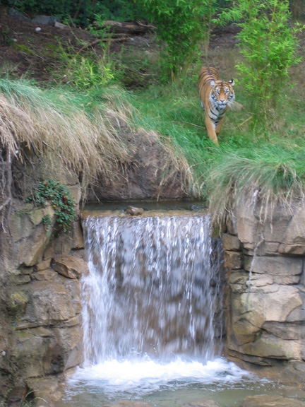 A tiger in Asian Forest Sanctuary at Point Defiance Zoo & Aquarium at the top of a waterfall